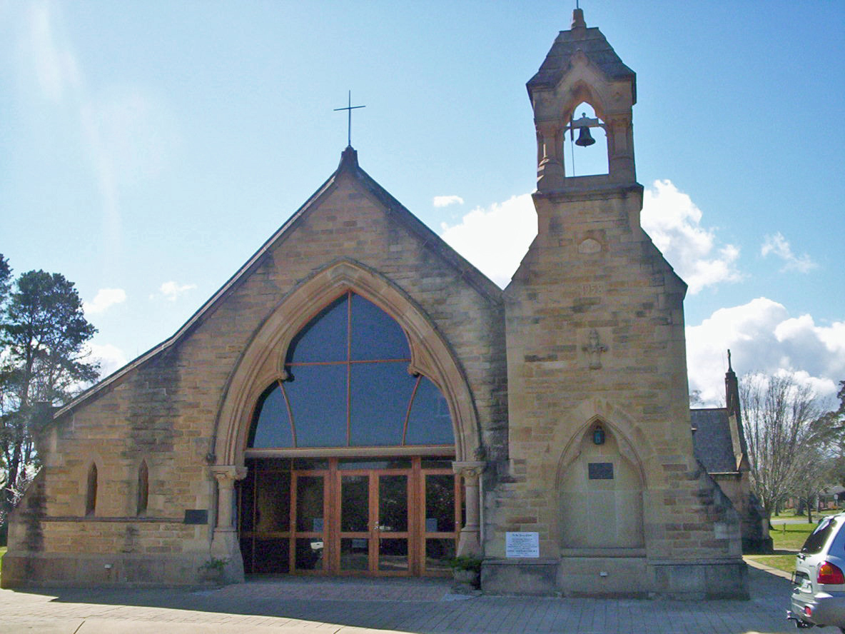 All Saints Church, Ainslie, ACT. I took the photo.